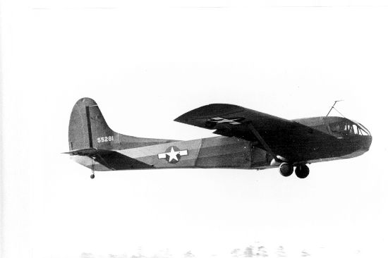 Waco CG-15A transport glider.